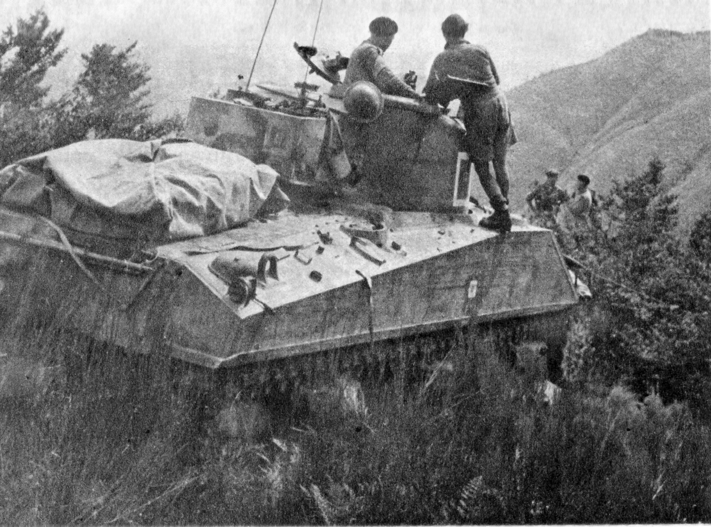 11th Armoured Bde Sherman of the South African 6th Armoured Division in the Chianti Highlands overlooking the approaches to Florence. 1944